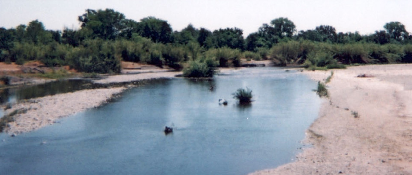 Cottonwood Creek, a tribuatary of Sacramento River in Northern California. Cropped from PDF file.